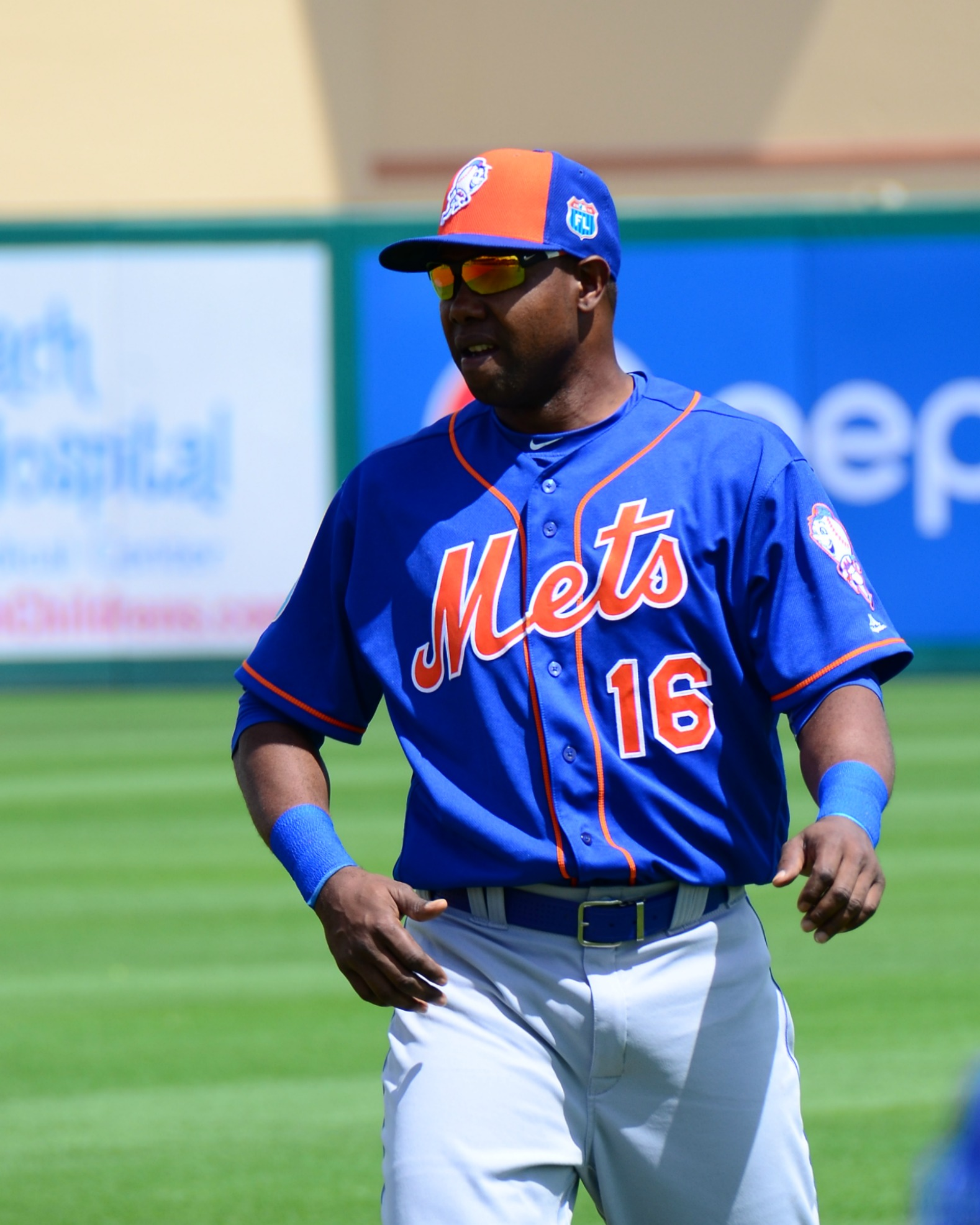 De Aza in 2016 as a member of the New York Mets